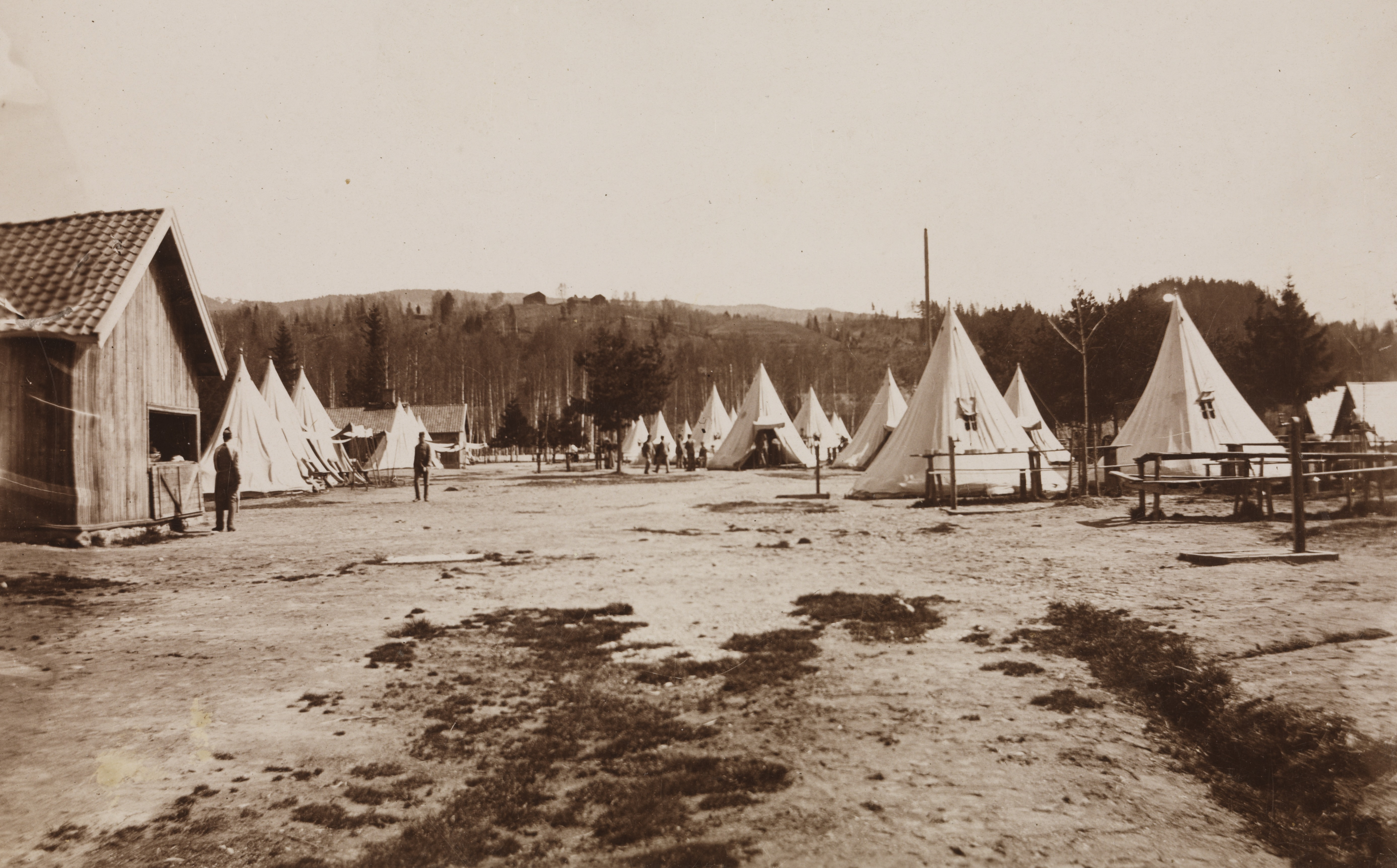 Hvalsmoen drill ground for the Engineers Regiment (in Haugsbygd). Headquarters of the Engineer Corp's school and practice division. Shown is a military camp with tents.